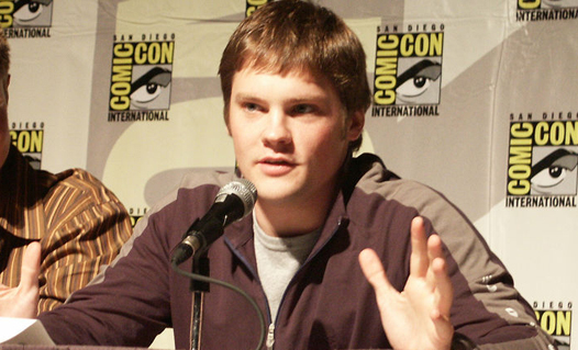 Teddy Dunn at Comic-Con in 2005.